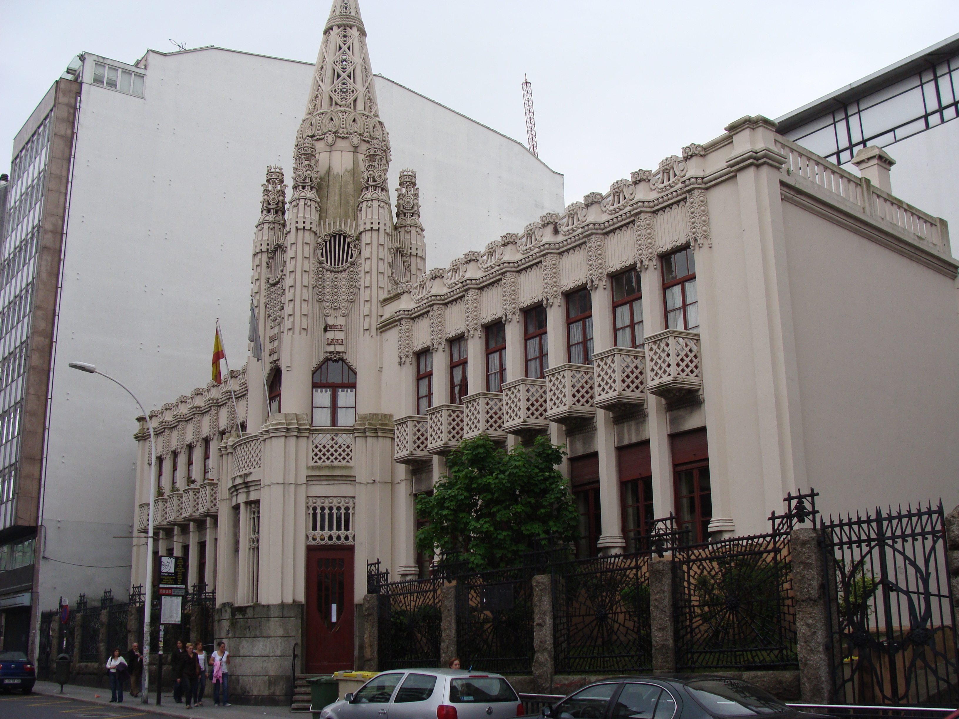 Building of Fundación Labaca, in Corunna, Galicia, Spain